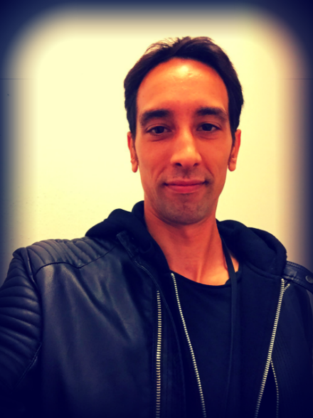 Benjamin Kunz Mejri